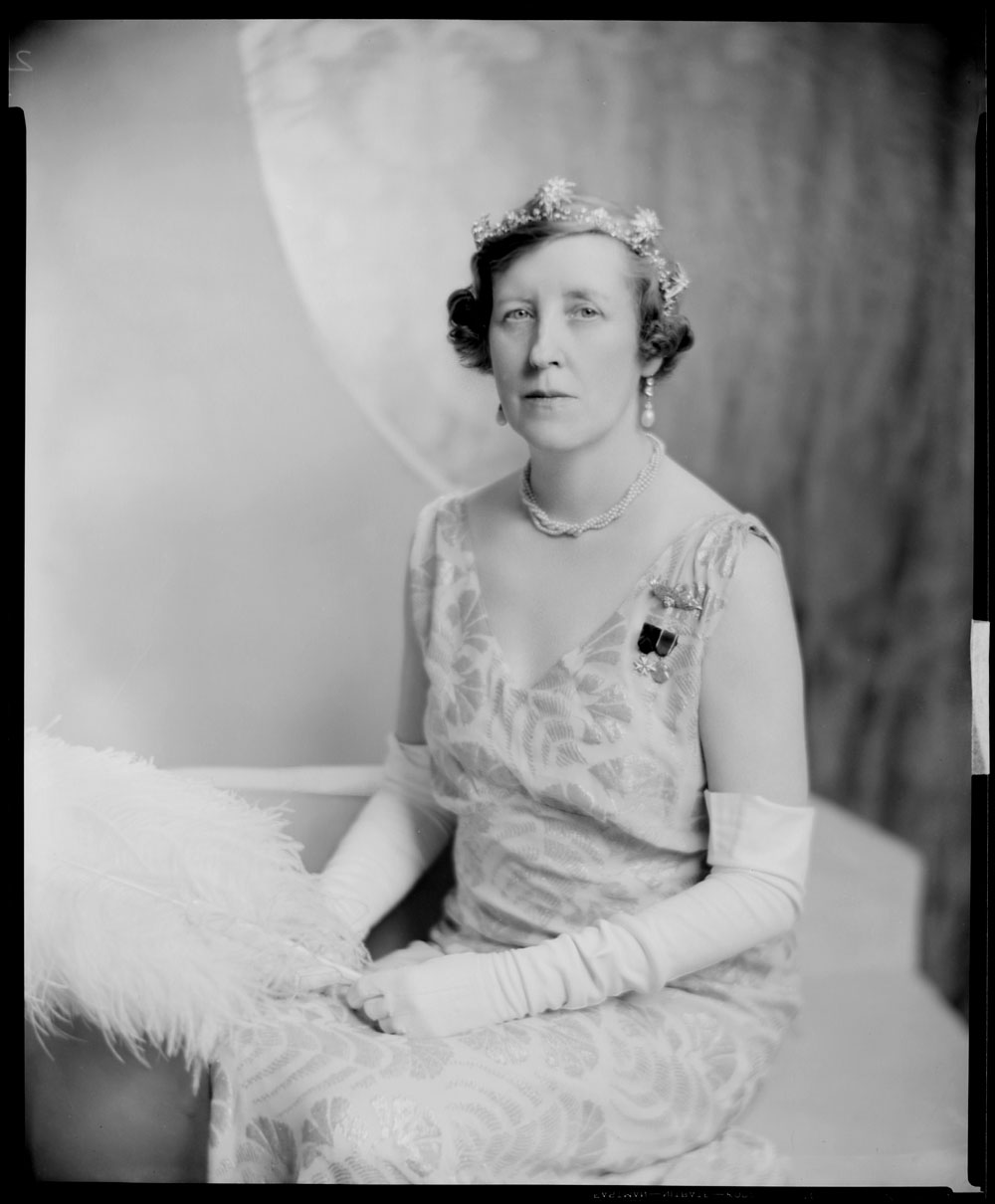 Portrait of Susan, Lady Tweedsmuir, taken at Government House, Ottawa, by Yousuf Karsh, 9 March 1937.